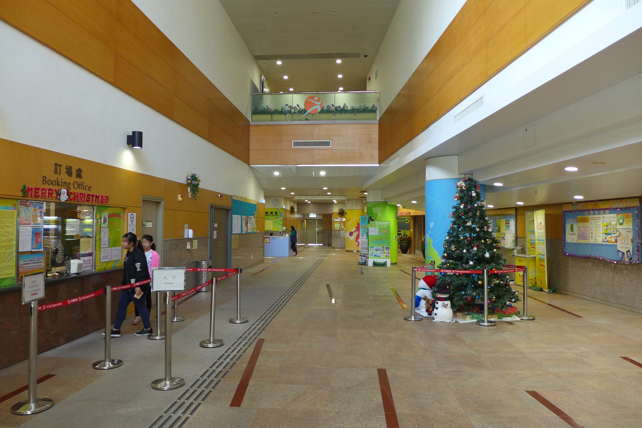 Tin Shui Sports Centre Lobby